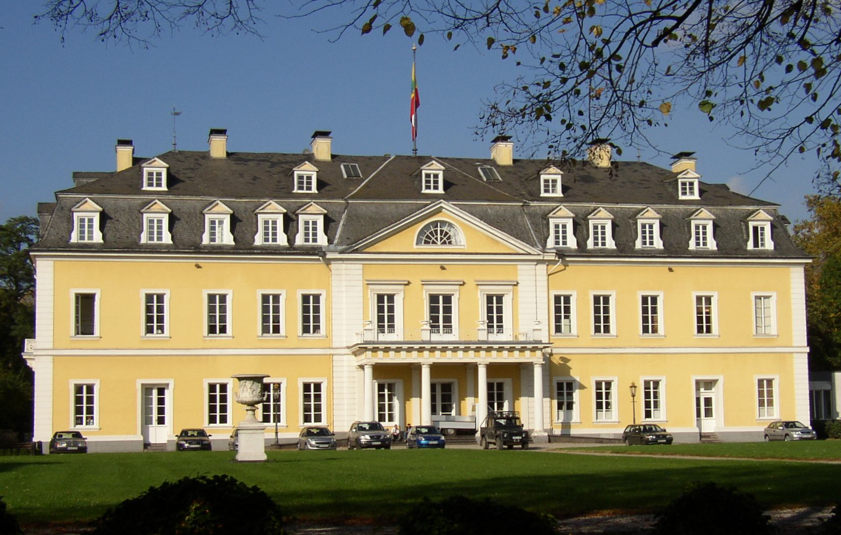 Palace in Neuwied in Rhineland-Palatinate, Germany